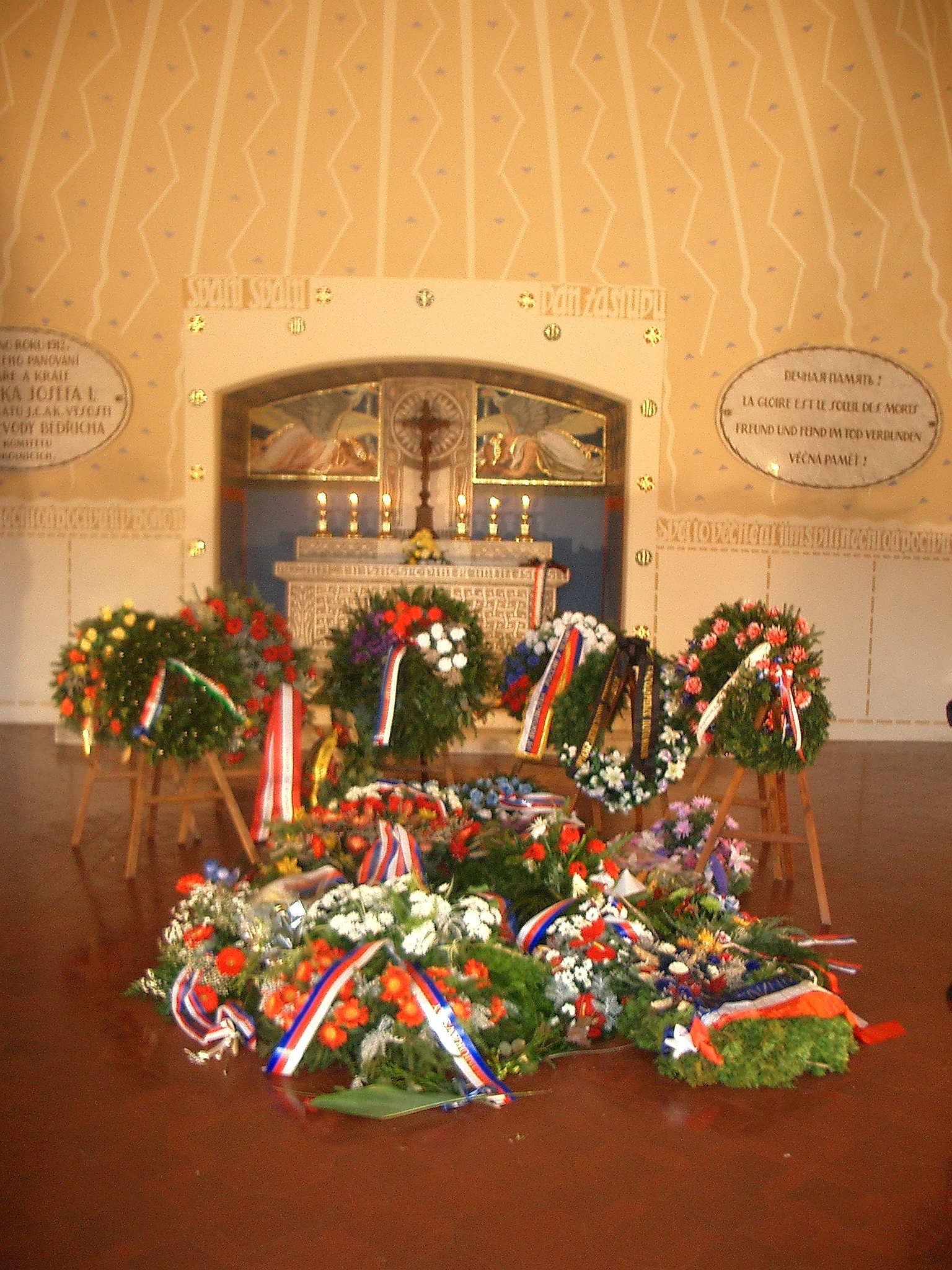 Peace Monument at Austerlitz. Interior Author: Jean-Claude Brunner